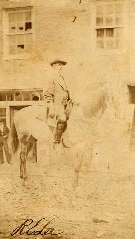 Robert Edward Lee mounted on Traveller in Petersburg, 1864.